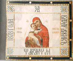 Standard of the Borodinskij 68th Infantry Regiment